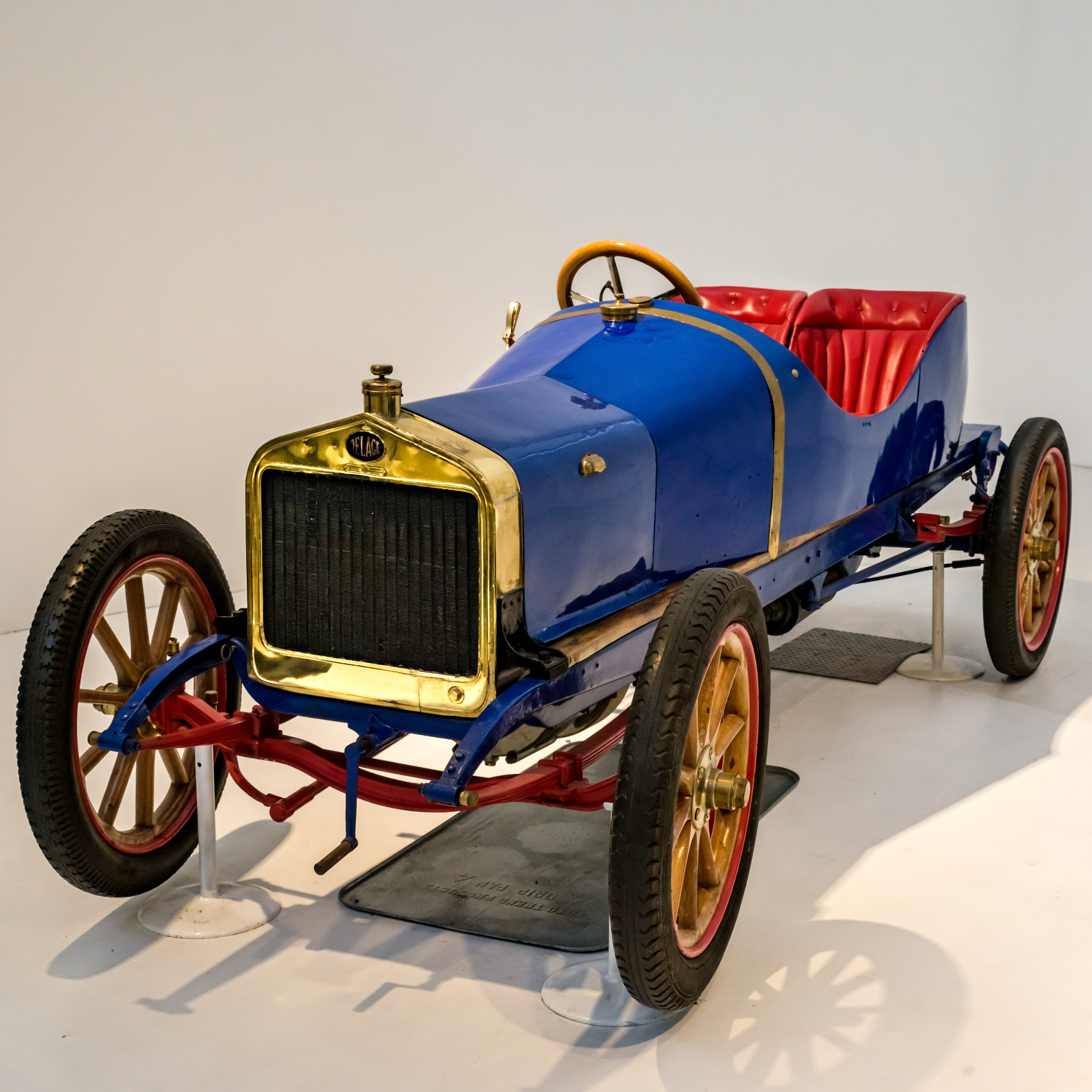 pictures from the Cité de l’Automobile – Musée National – Collection Schlump in Mulhouse, France ptictures from the 10. may 2018